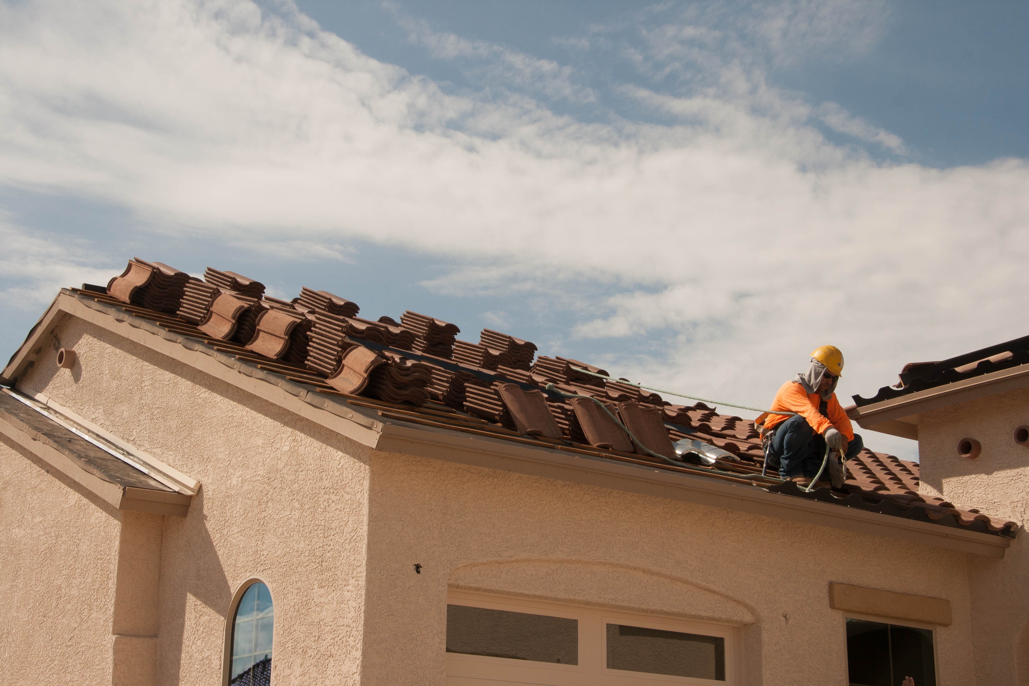 A construction worker roofing a home in Phoenix, Arizona.